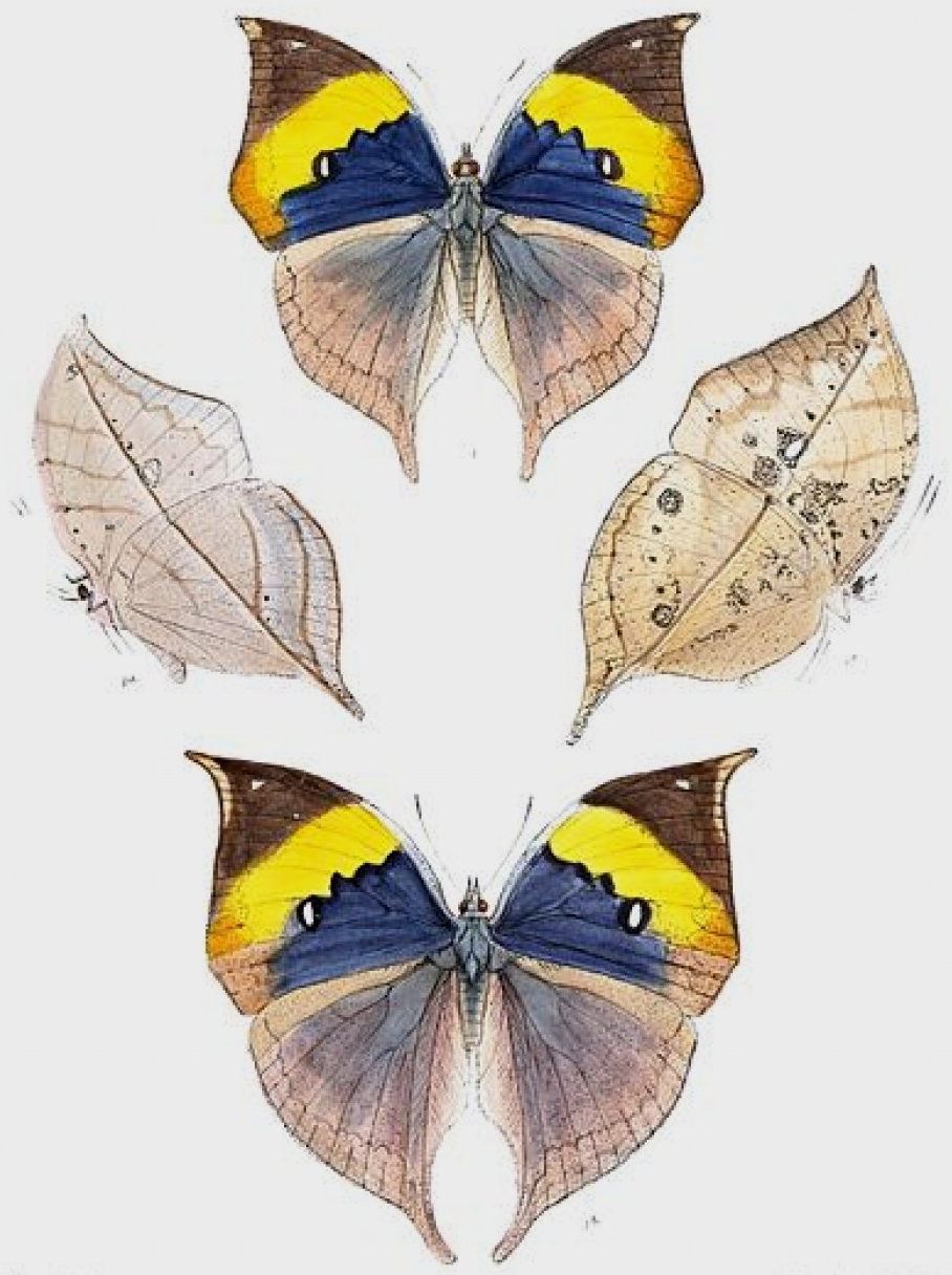 Illustration of the Leaf Butterfly Kallima inachus (dry season form) taken from Lepidoptera Indica. Volume 4. (between 1899 and 1900); Frederic Moore and F. C. Moore (more darker image than the original).